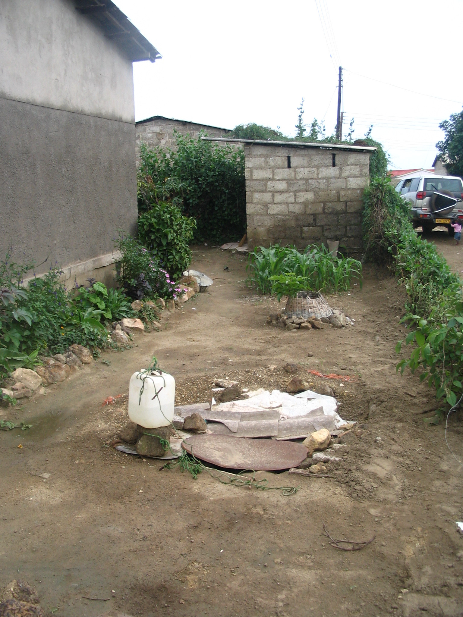 Close proximity of groundwater well and pit latrine in peri-urban area of Lusaka, Zambia